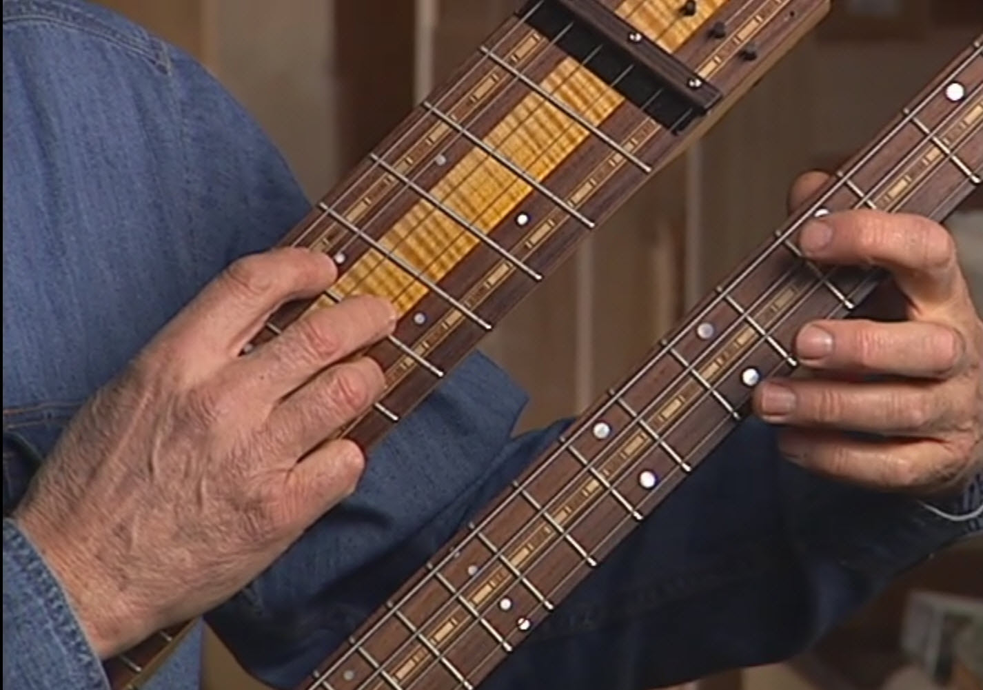 The upper neck plays lead while the lower neck plays the bass line.